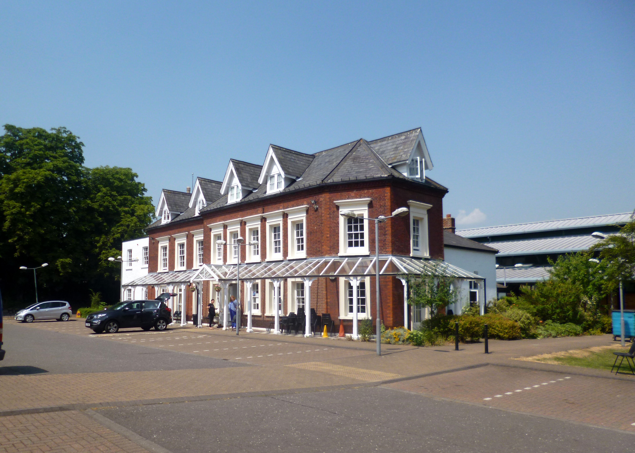 Photo of Allum Manor Community Centre